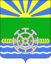 Coat of arms of Privolni, Kavkazskaya Rayon, Krasnodar Krai, Russia